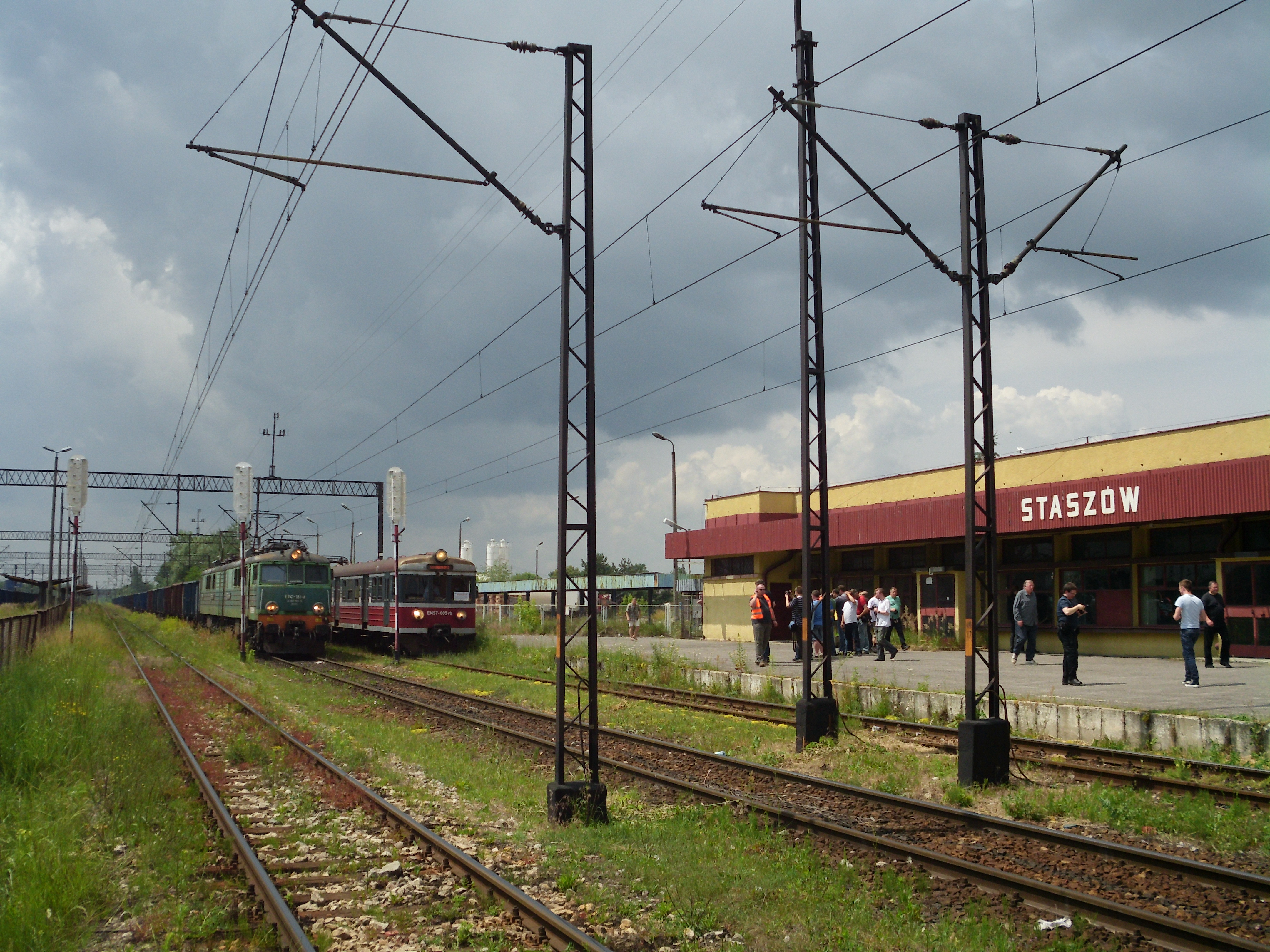 Electric unit EN57-005rb and a freight train in Staszów on railway from Włoszczowice to Chmielów koło Tarnobrzega. The train was organized for railfans - there are no regular passenger trains here.